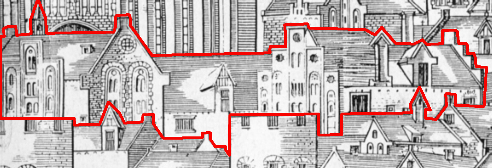 Outlined in red: The Bishop's Residence (Bischofshof) in Lübeck in the 16th century